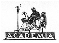 Logo of the publishing house Academia designed by Grigori Pavlovich Lyubarsky (1885–1942).